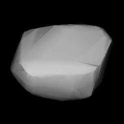 3D convex shape model of 334 Chicago, computed using light curve inversion techniques. J. Hanuš, J. Ďurech, M. Brož, B. D. Warner (June 2011). "A study of asteroid pole-latitude distribution based on an extended set of shape models derived by the lightcurve inversion method". Astronomy and Astrophysics 530: A134. ISSN 0004-6361. arXiv